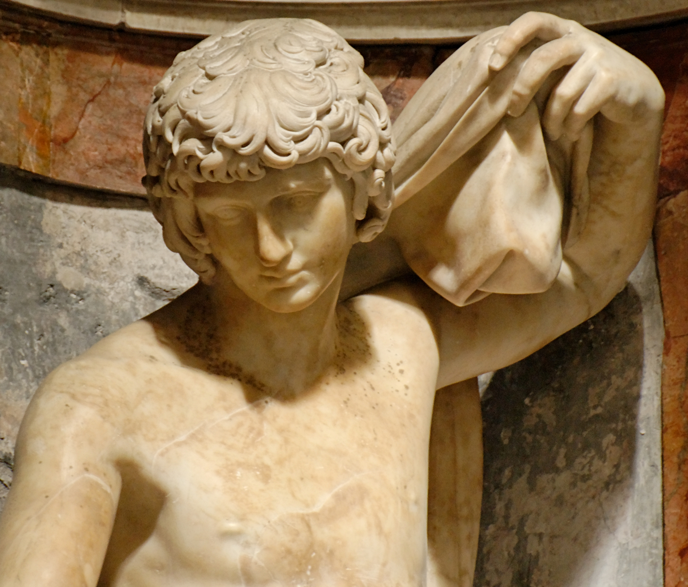 Jonah and the great fish, with the head copied after the Farnese Antinous. Marble, drawn by Raphael and executed by Lorenzetto (1522–27), Chigi Chapel of the Church Santa Maria del Popolo in Rome.